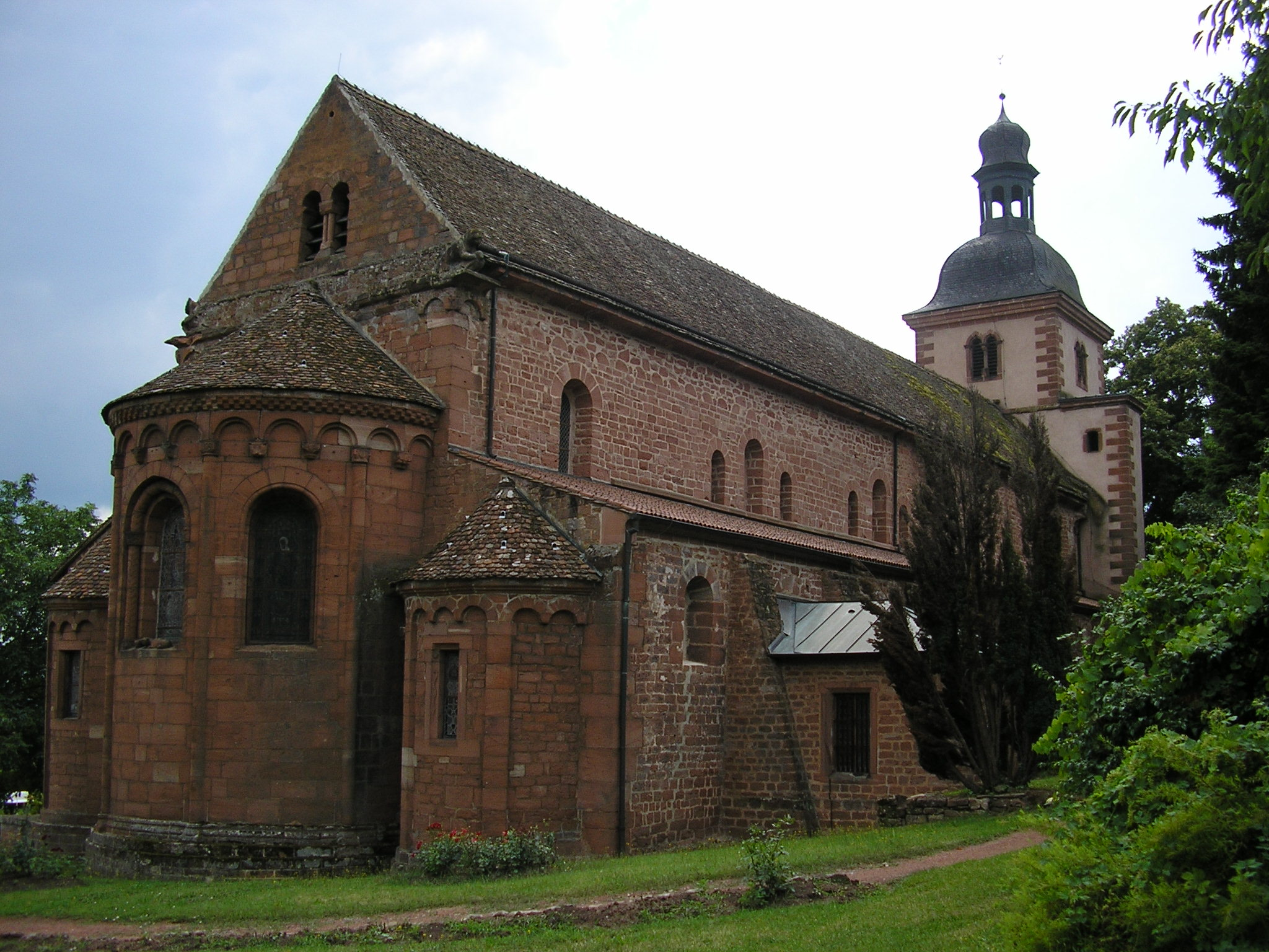 Eglise-abbatiale St Jean Baptiste (St Jean Saverne) (Bas Rhin)